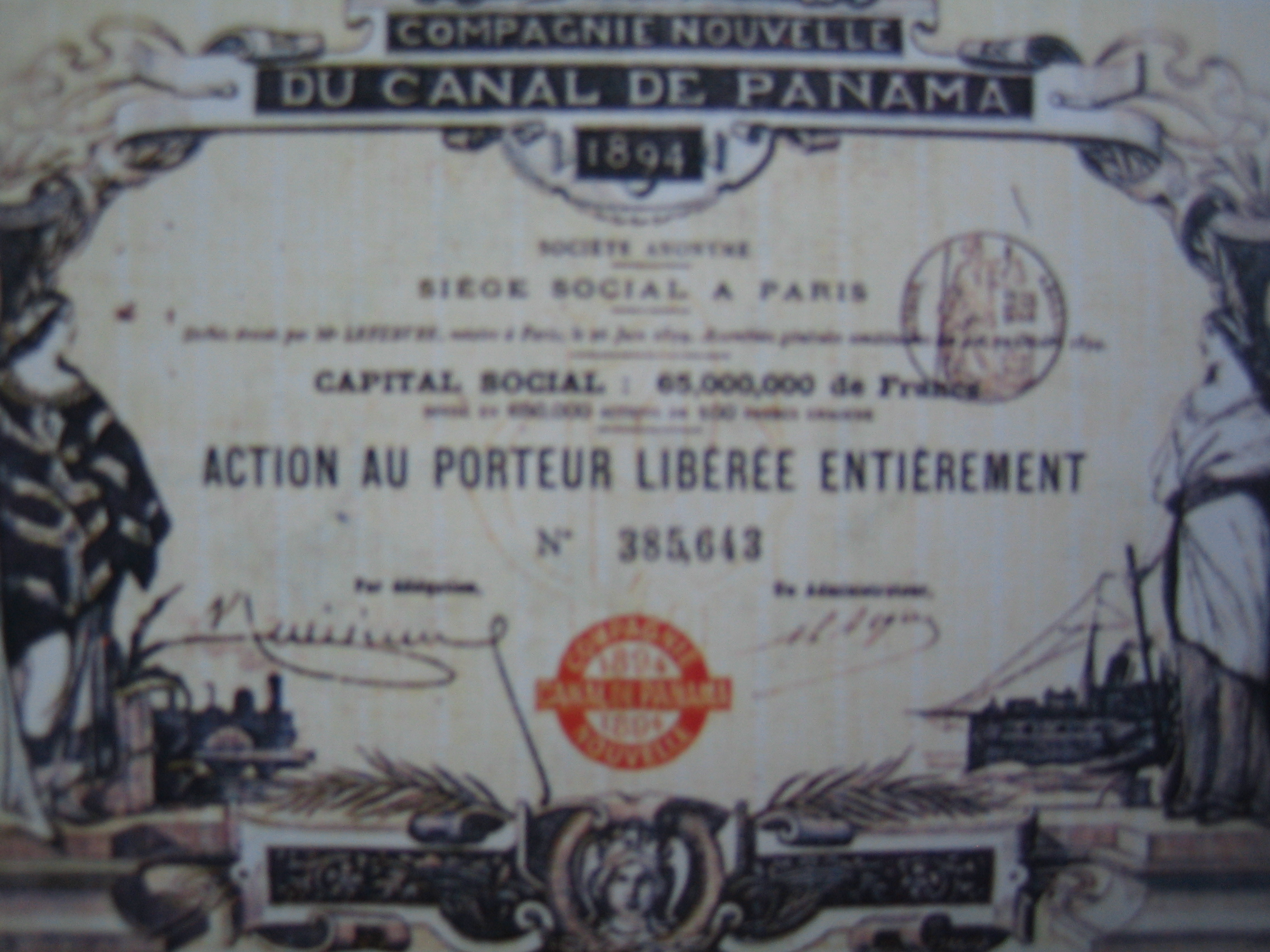 A certificate from the Compagnie Nouvelle du Canal de Panama issued in 1894.